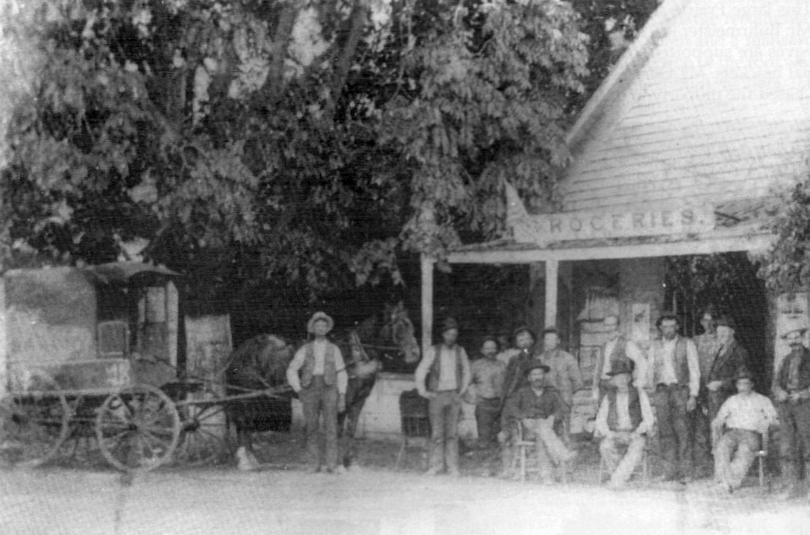 Christley Mankas' shore at Mankas Corner in the late 1800s